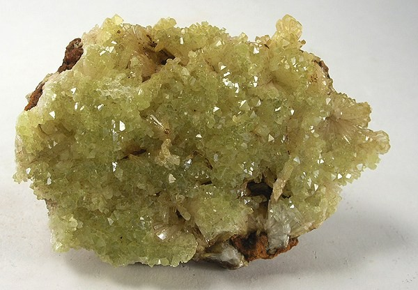 Adamite Locality: Ojuela Mine, Mapimí, Municipio de Mapimí, Durango, Mexico (Locality at ) Size: 9.2 x 6.8 x 2.2 cm. A pretty plate of sparkling, light grassy-green crystals of adamite on limonite matrix - classic from the Ojuela Mine.